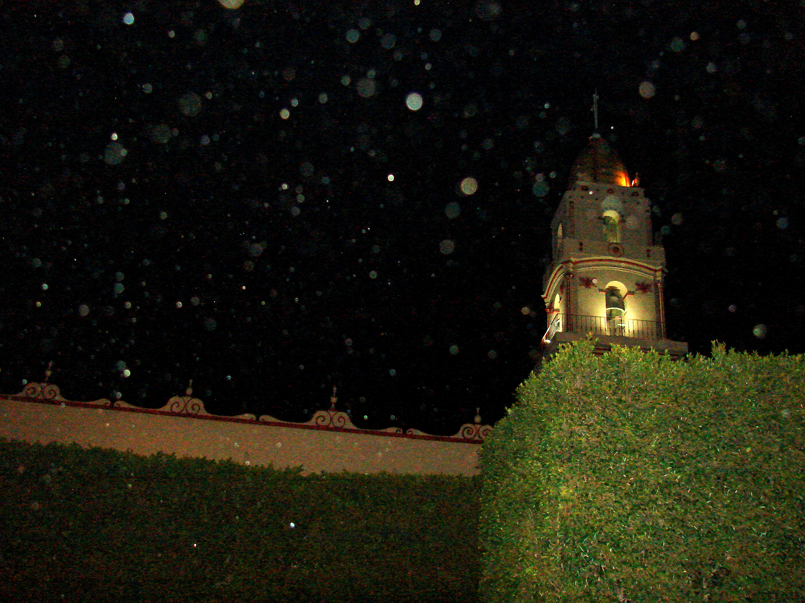 Church of Chipilo, Puebla, Mexico.